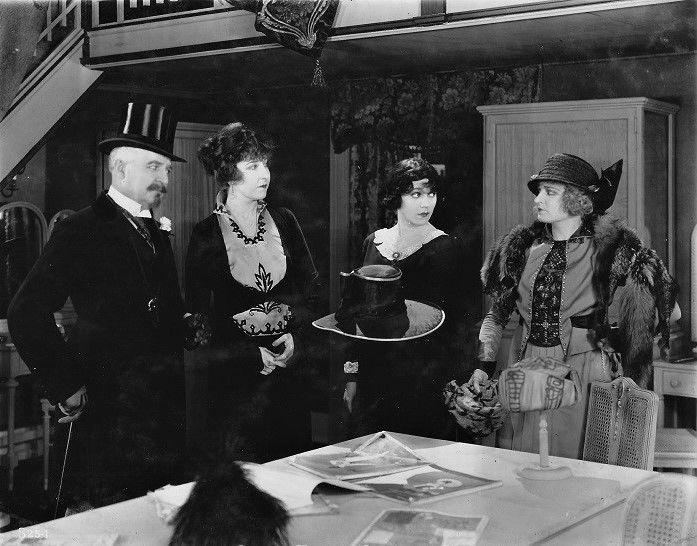 L. to R. : Frank Losee, Josephine Whittell, Alice Brady & Gladys Valerie, in Marie, Ltd. - publicity still (cropped)